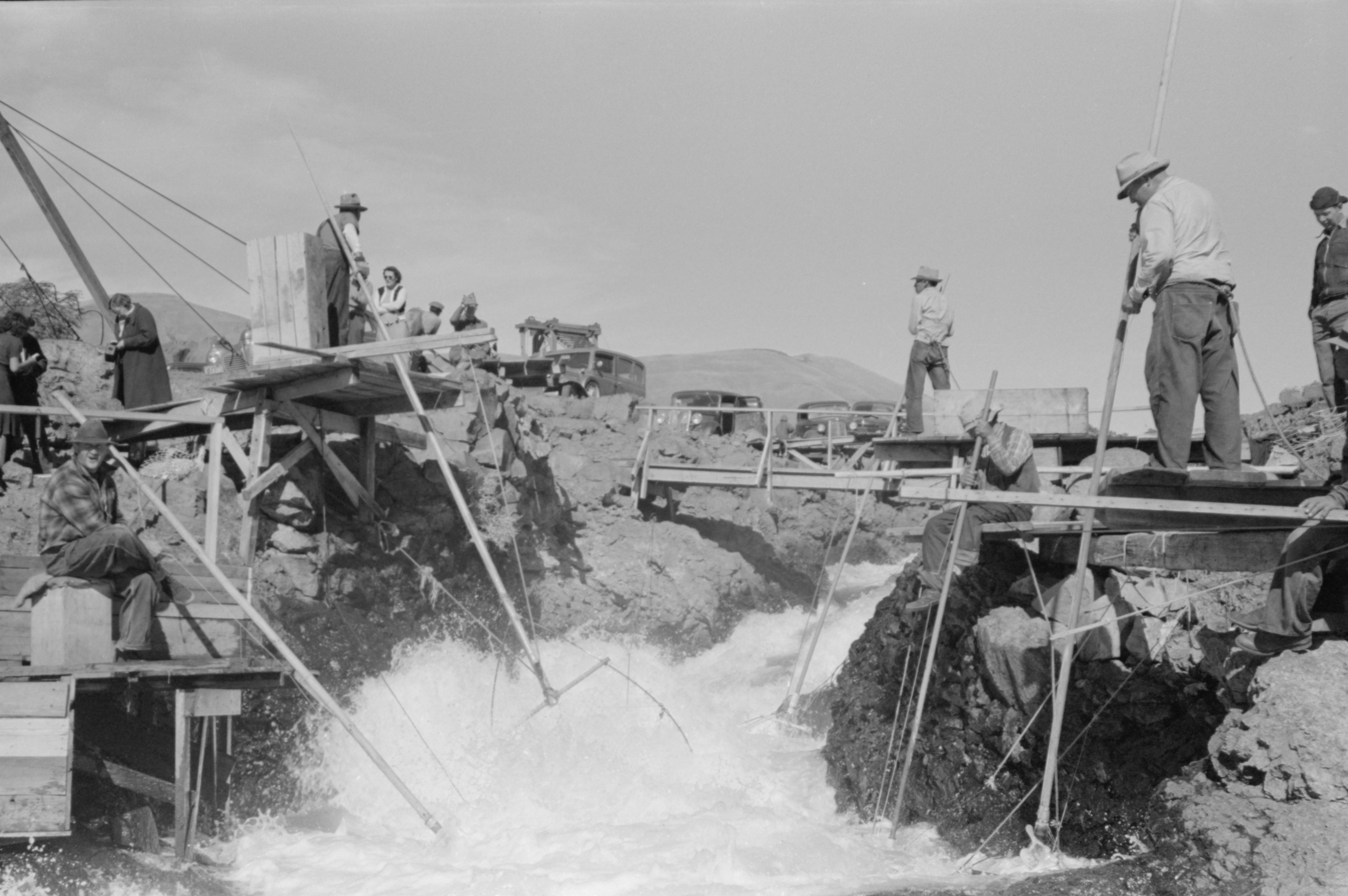 Indians fishing for salmon, Celilo Falls, Oregon